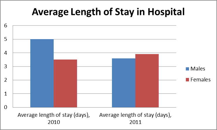 Comparison of Length of stay between males and females in 2010 and 2011. The number of stay decreased for males in 2011. However, the number of hospital stay for females increased in 2011. (2010, 2011)